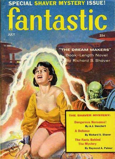 Cover of Fantastic, July 1958